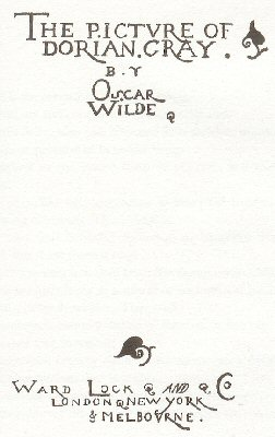 Title page of The Picture of Dorian Grey, edited by Ward, Lock & Co.